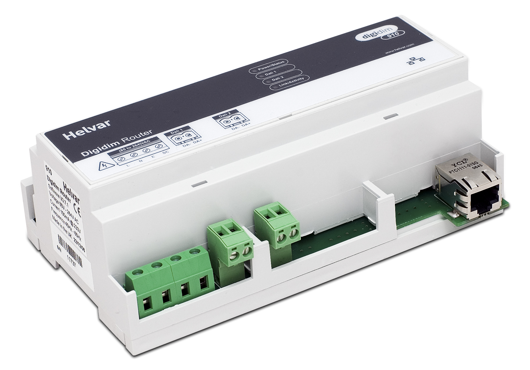 DIGIDIM Router which allows flexible control of Lighting System